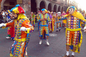 huehues of xaloztoc, tlaxcala